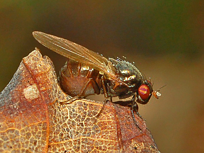 Calliopum sp., female. Creto, Genova, Italy